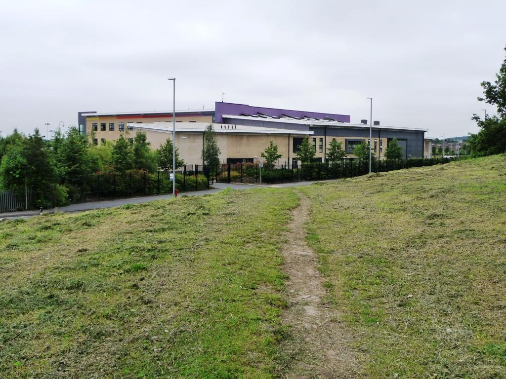 John Smeaton Community College